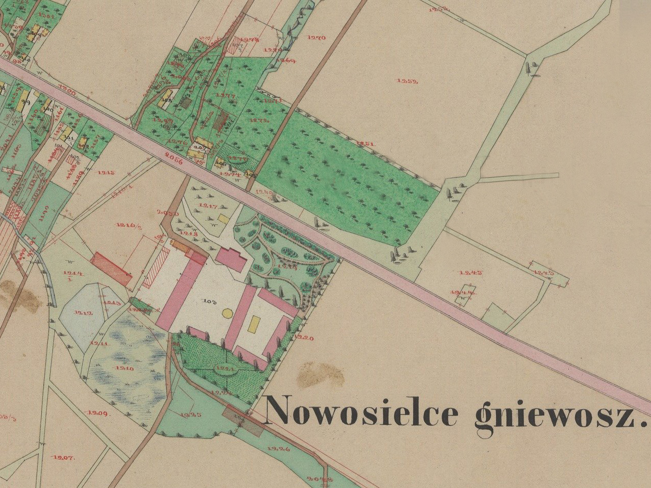 Manor house and garden in Nowosielce Gniewosz on a map from 1851